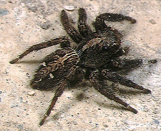 female Plexippus paykulli from Okinawa.